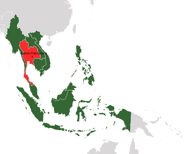 Map of the 2007 SEA Games. Green: participating nations. Red: Host country.